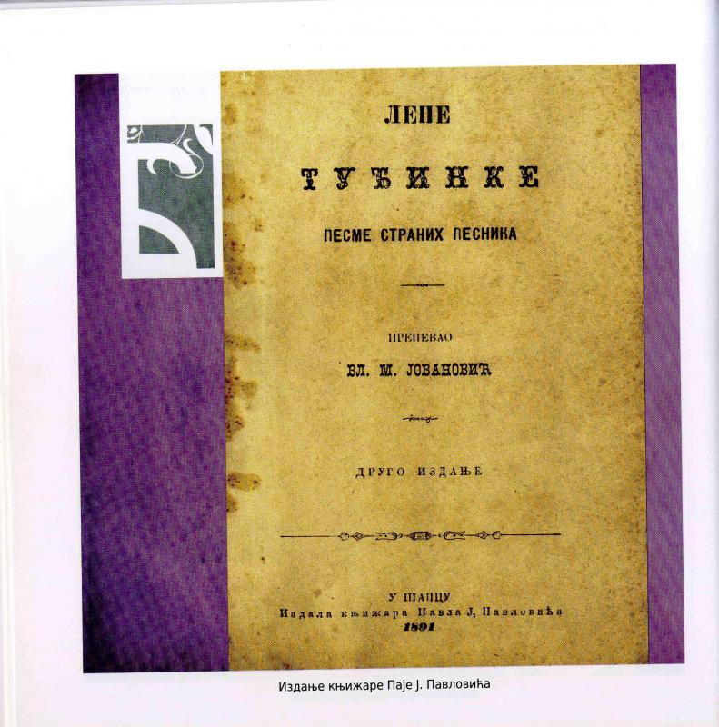 Издање књижаре Паје Ј. Павловића